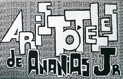 Cover of Aristóteles de Ananias Jr's first and only demo-tape (1993). Design by Marcelo Birck, band leader.